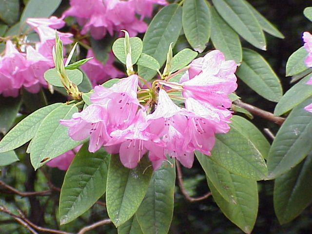 Species: Rhododendron adenogynum Family: Ericaceae Image No. 2